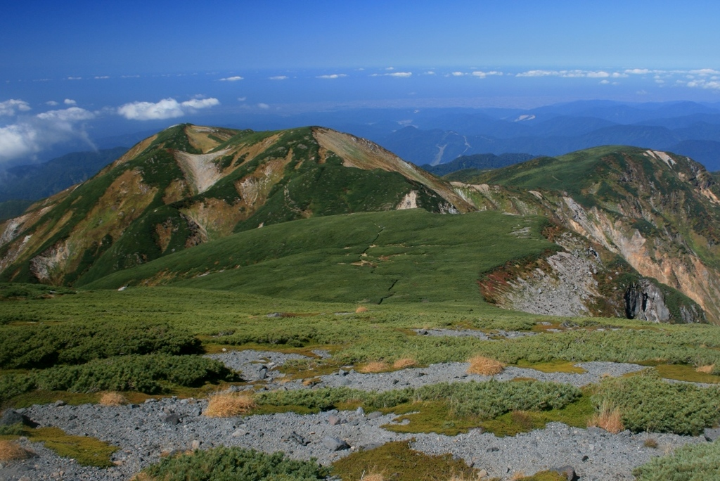 Nanakurayama_from_oonanjimine_2008-10-2